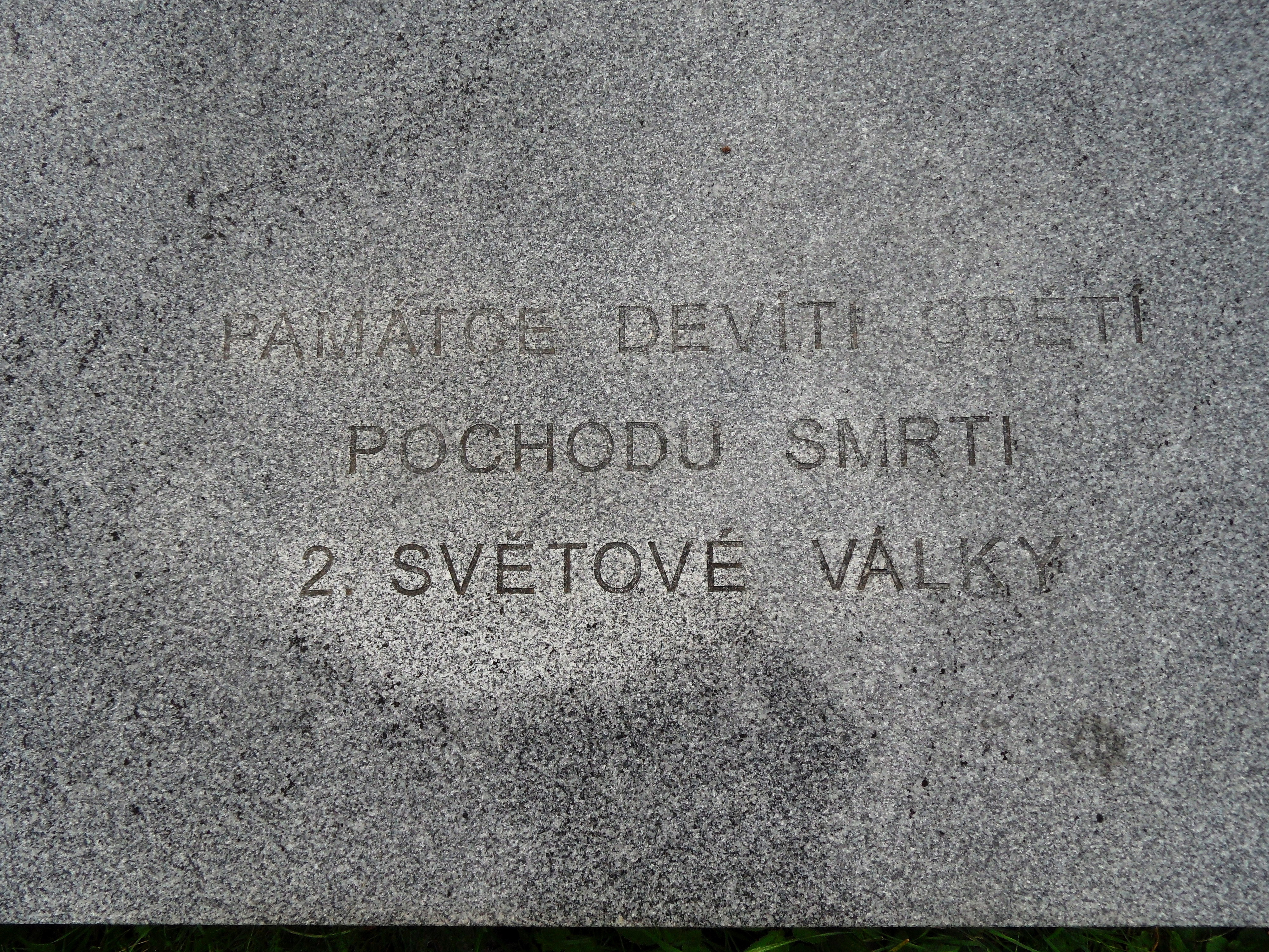 Bernartice: Grave and Memorial of Victims of Death March: Inscription. Jeseník District, the Czech Republic.